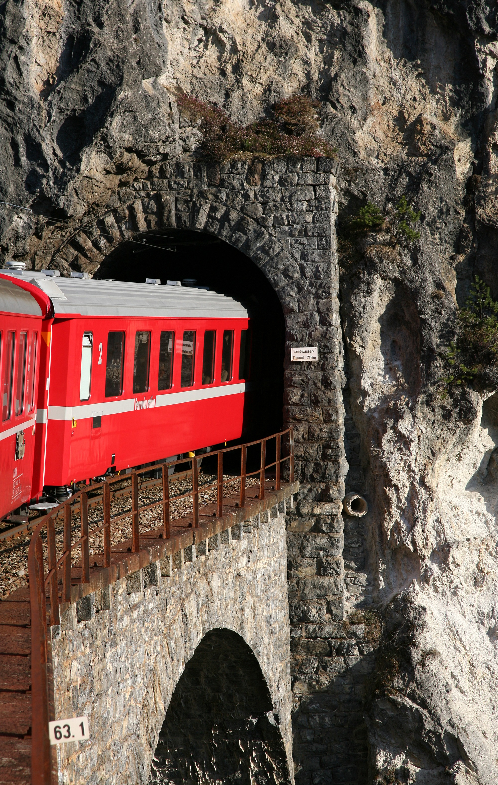 Rhaetian Railway Glacier Express entering the Landwasser tunnel portal. Close up. (almost smashed my head, and more importantly, my camera a few seconds later)